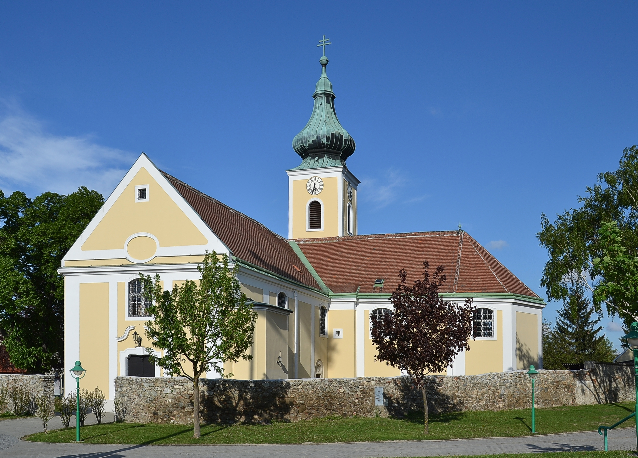 Church in Wolfsthal, Austria